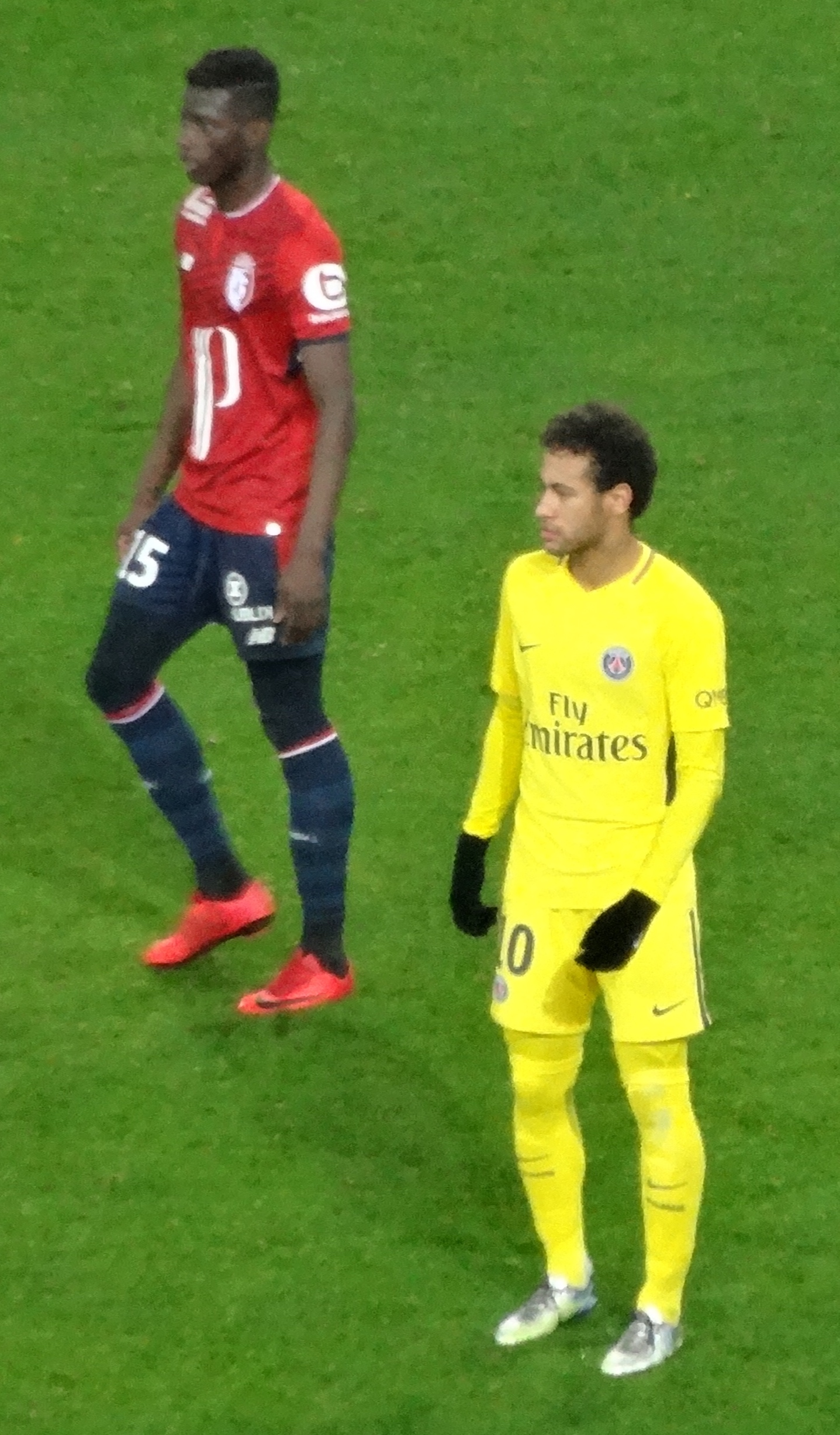 Edgar Ié vs Neymar